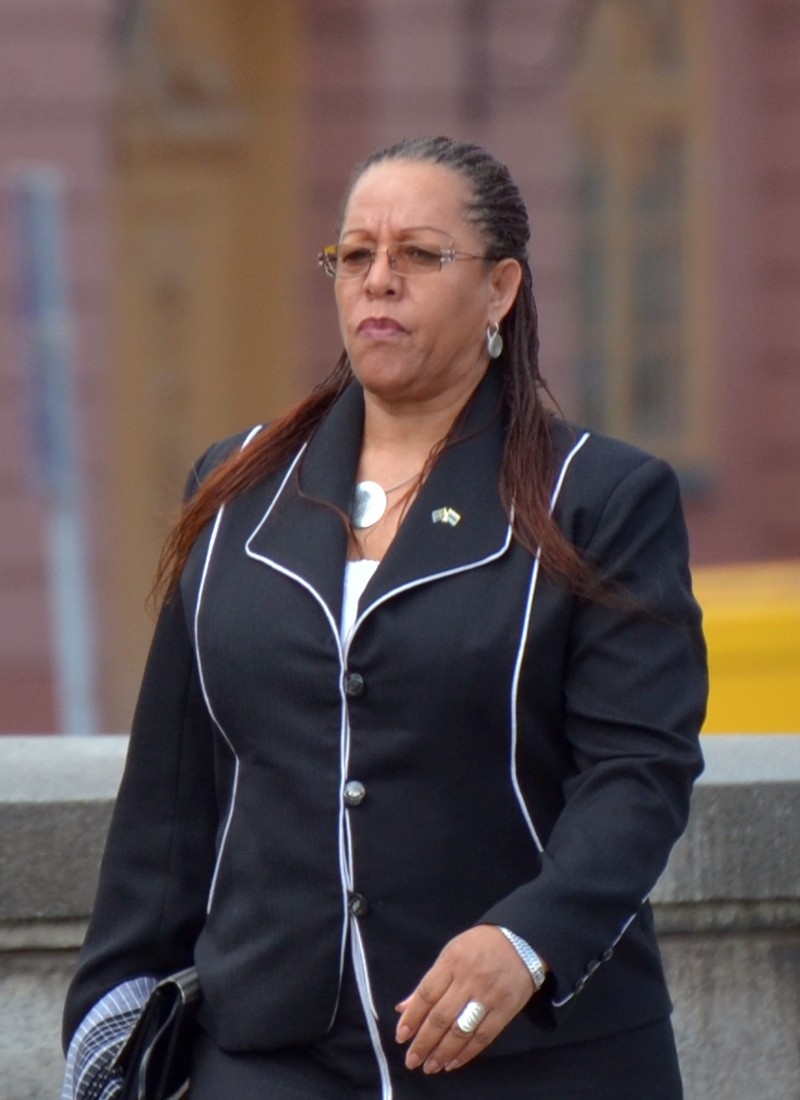 Bernadette Sebage Rathedi, ambassador of Botswana in Stockholm.